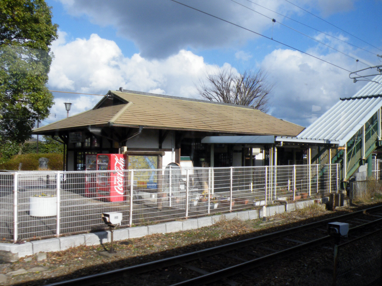 Chikuzen-Habu Station on Chikuho Main Line, JR Kyushu.